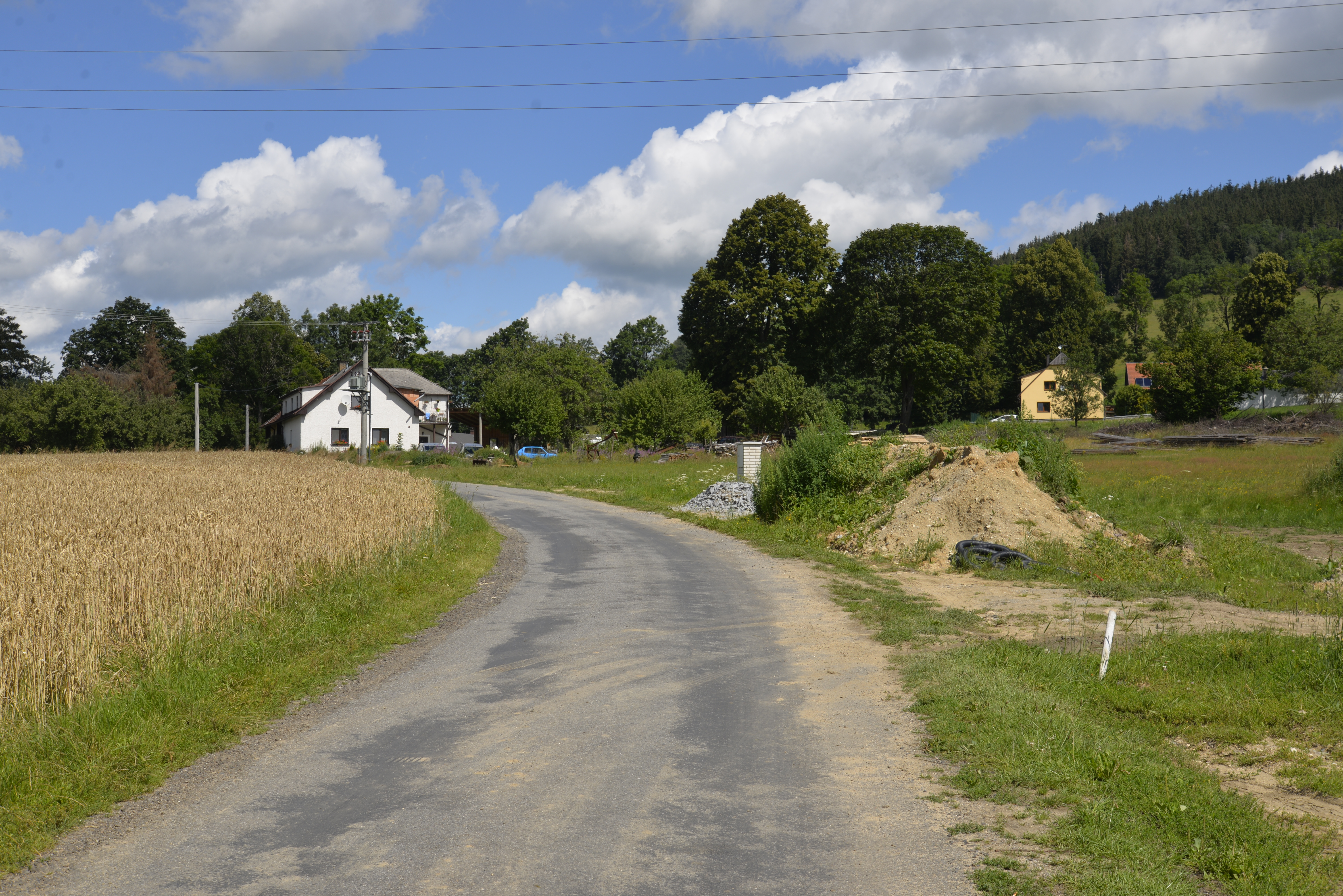 Radostice - small village, part of Hlavňovice in Klatovy District